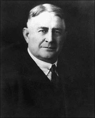 James Kennedy Cornwall, member of the Legislative Assembly of Alberta from 1909-1913